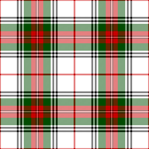 "ye principal clovris of ye clanne Stewart" tartan, as published in the Vestiarium Scoticum. Modern thread count: R6 W56 Bk6 W6 Bk6 W6 g26 R16 Bk2 R2 W2.